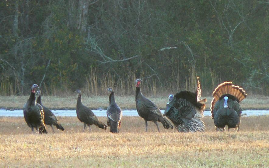 A flock of Eastern Wild Turkeys (Meleagris gallopavo silvestris) in Leon County, Florida. The turkey on the far right is a jake. One can tell this by the middle tail feather sticking up high than the rest of the feathers.